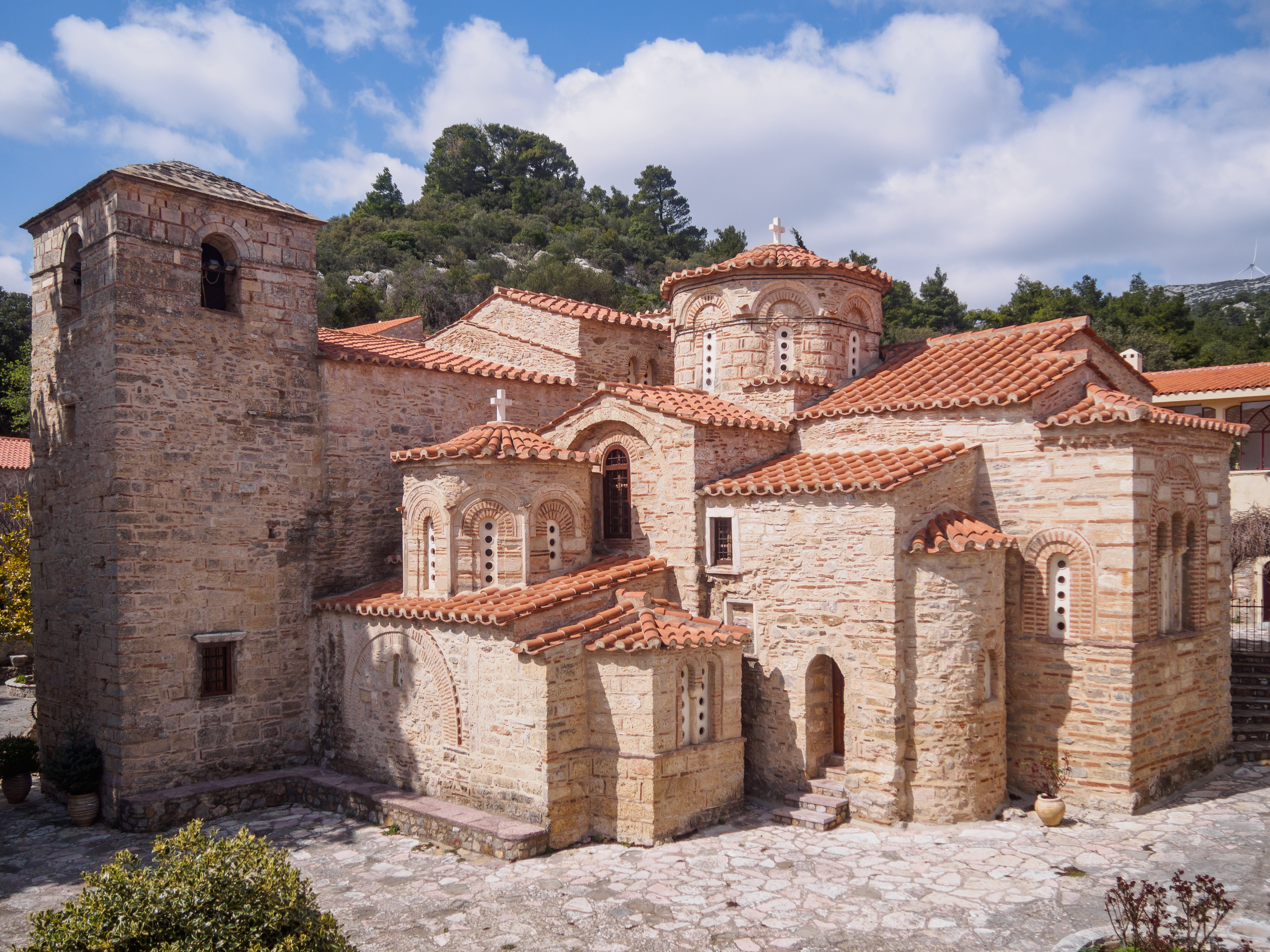 The church of the monastery of Osios Meletios, Attica.